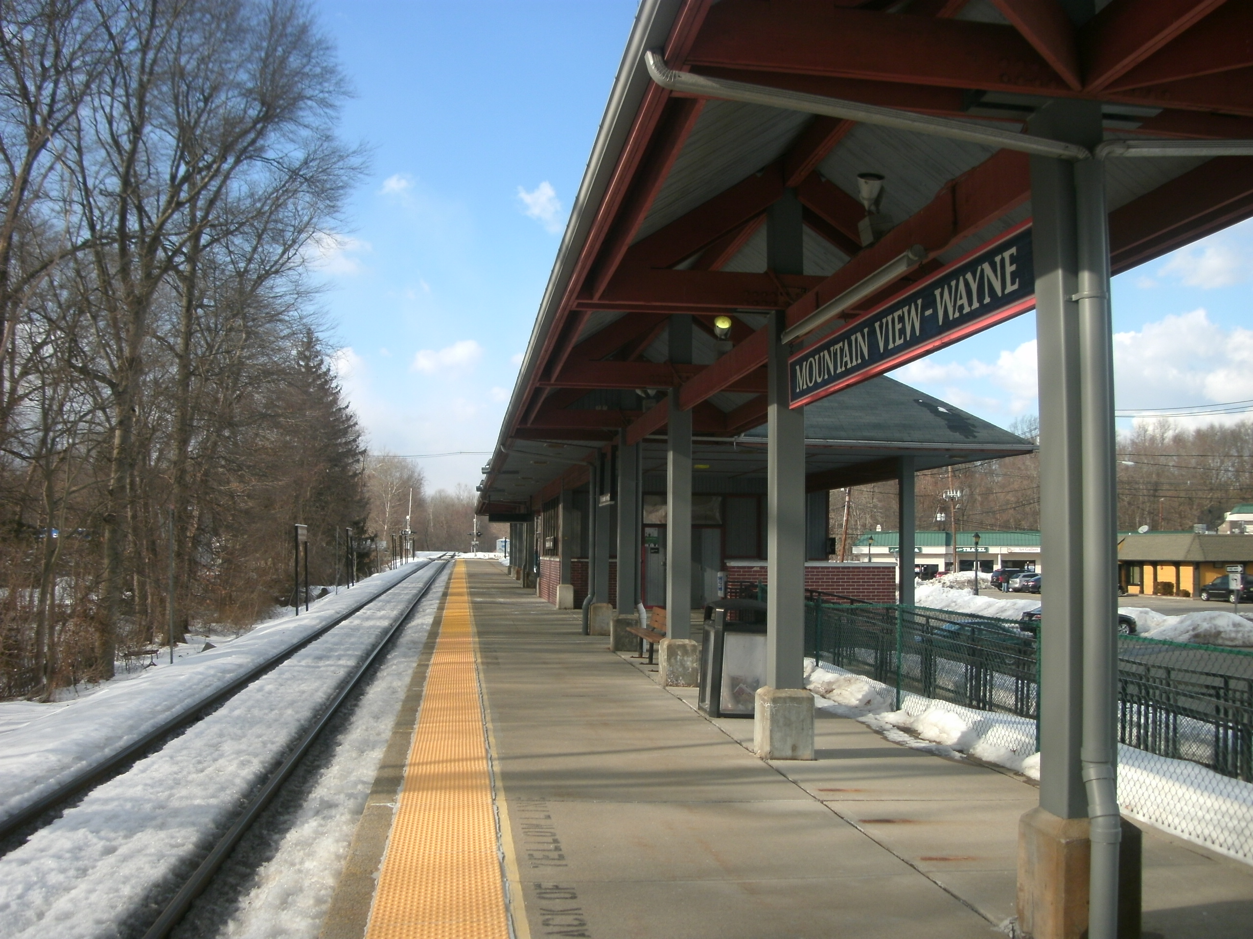 The station at Mountain View, a portion of Wayne, New Jersey on NJ Transit's Montclair-Boonton Line. The station view is facing northward towards MV Junction, a lightly used railroad junction in Wayne.